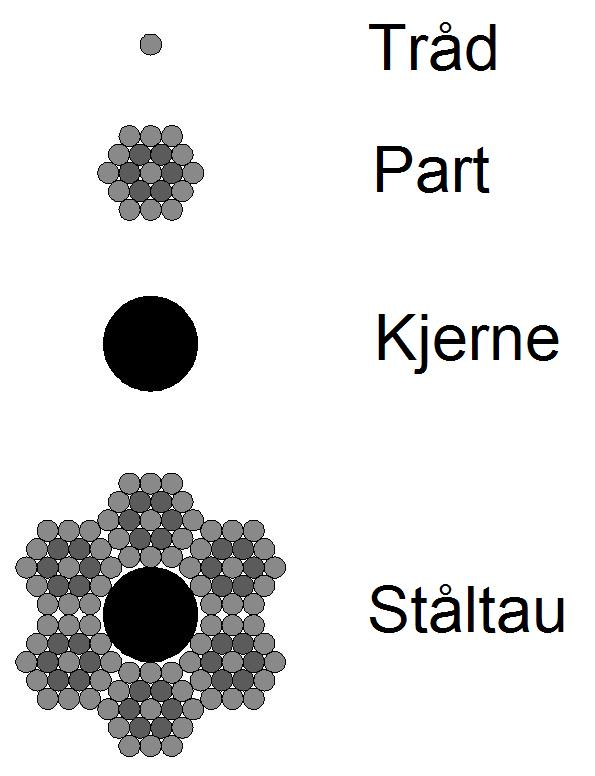 Norwegian version of Image:Wire rope construction.jpg